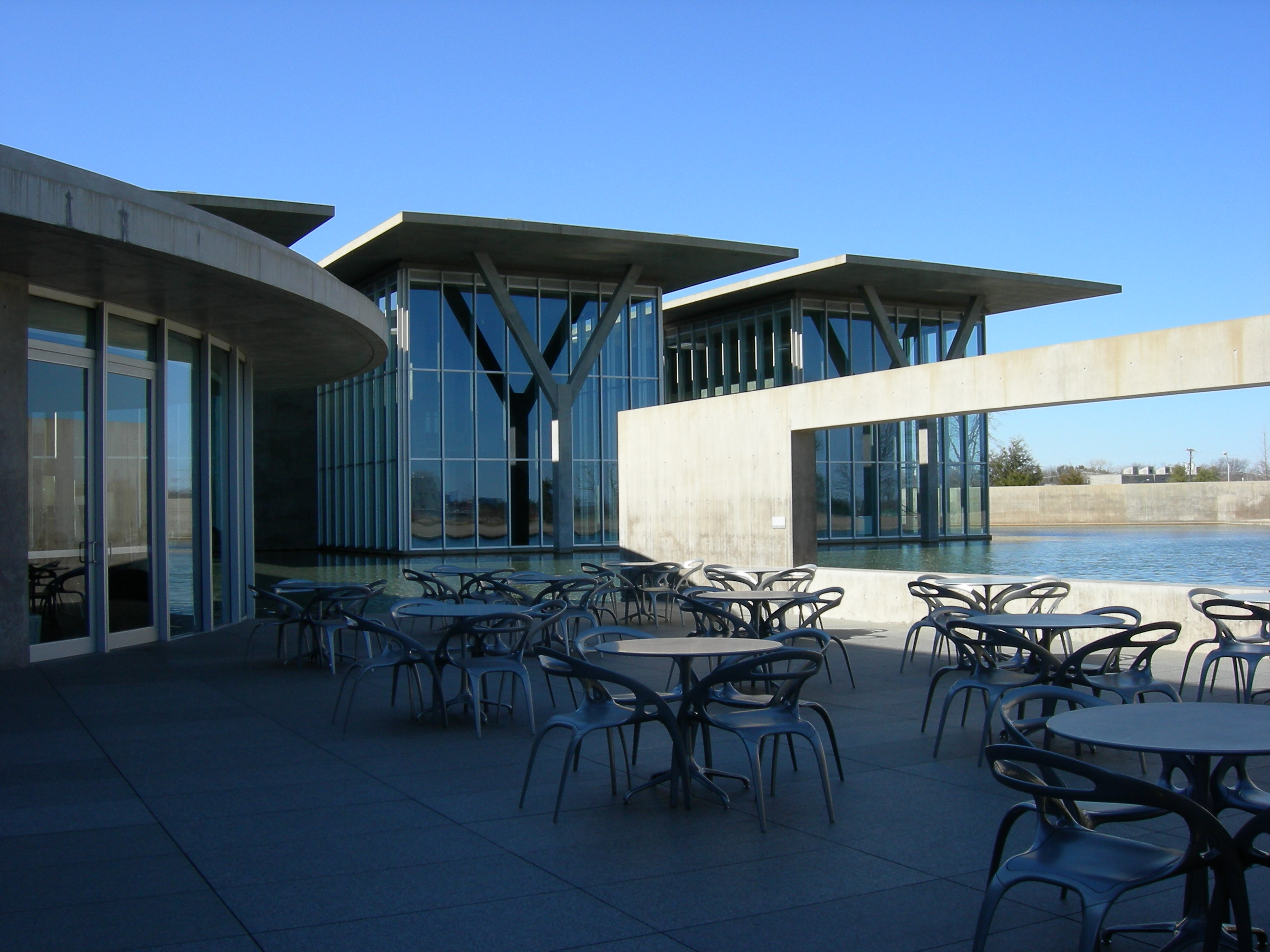 Modern Art Museum of Fort Worth, Fort Worth, Texas.